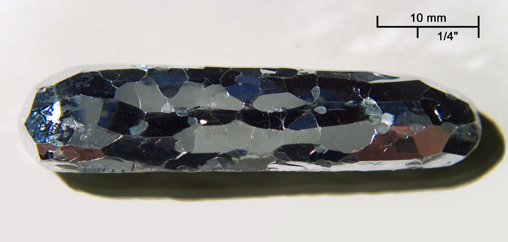 cadmium bar. Purity 99.999 %.